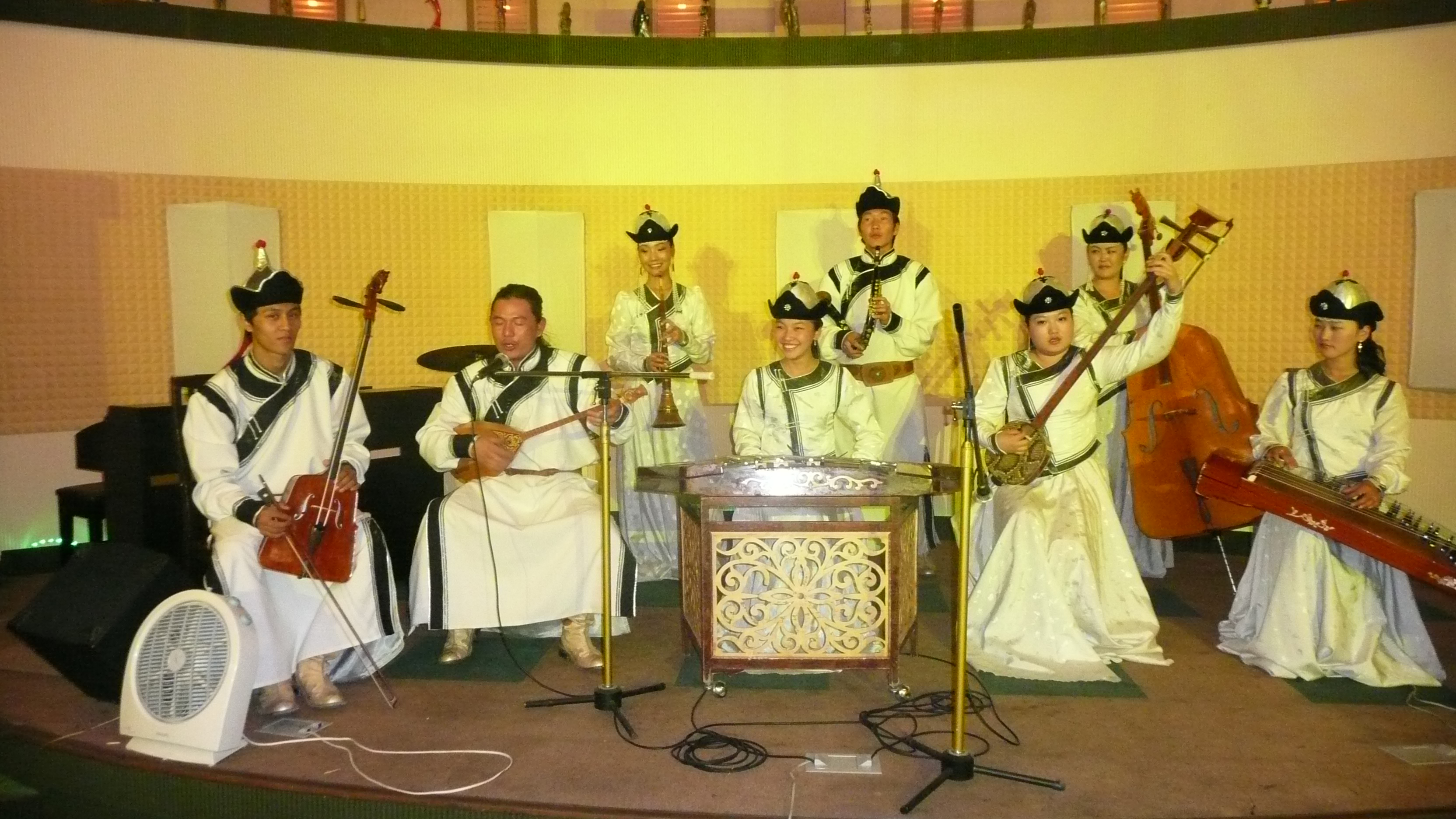 Mongolian folklore in a restaurant in Ulan Bator